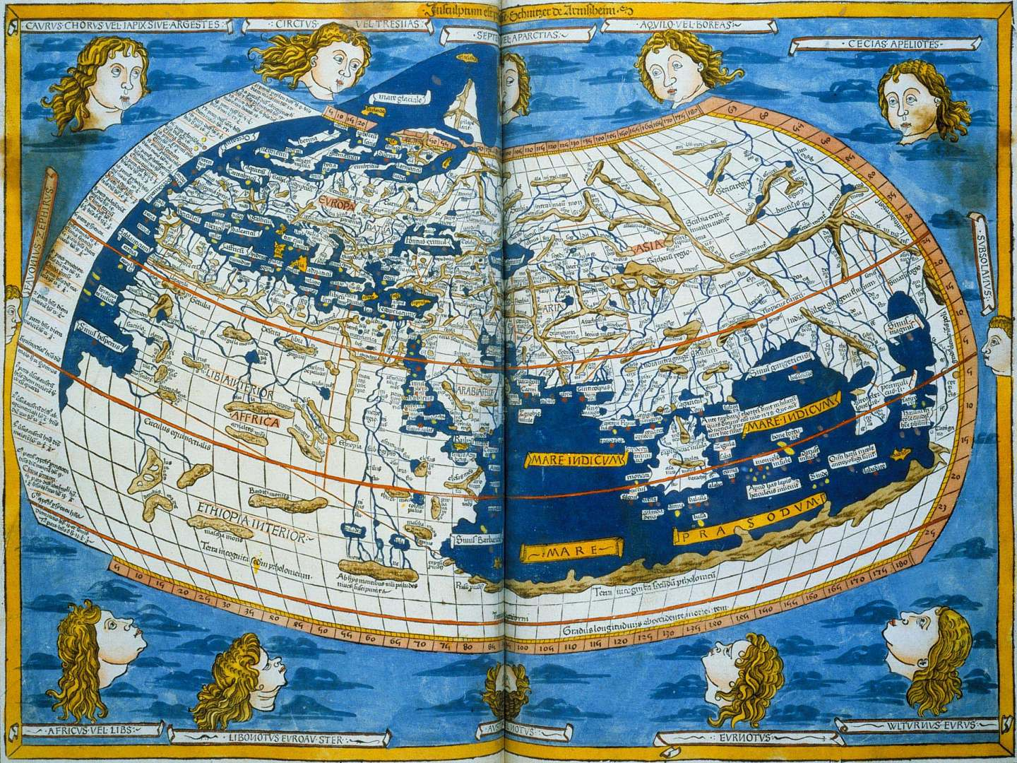 Ptolemy’s Geographia Cosmographia